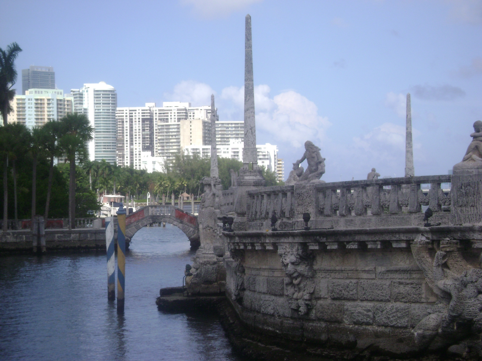 Vizcaya Estate 1914-16 Miami Dade County, Florida.